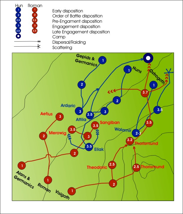 Disposition and movements of the forces arrayed at the Battle of Chalons. Drawn in CorelDraw 11, using multiple sources, of which these were the most used: Military Magazine December 2003, Battle of Châlons: Romans Halt Attila’s Huns, and SVG versions Also available in SVG format Italian version: Battaglia dei Campi Catalaunici.svg French version: Bataille des champs Catalauniques.svg